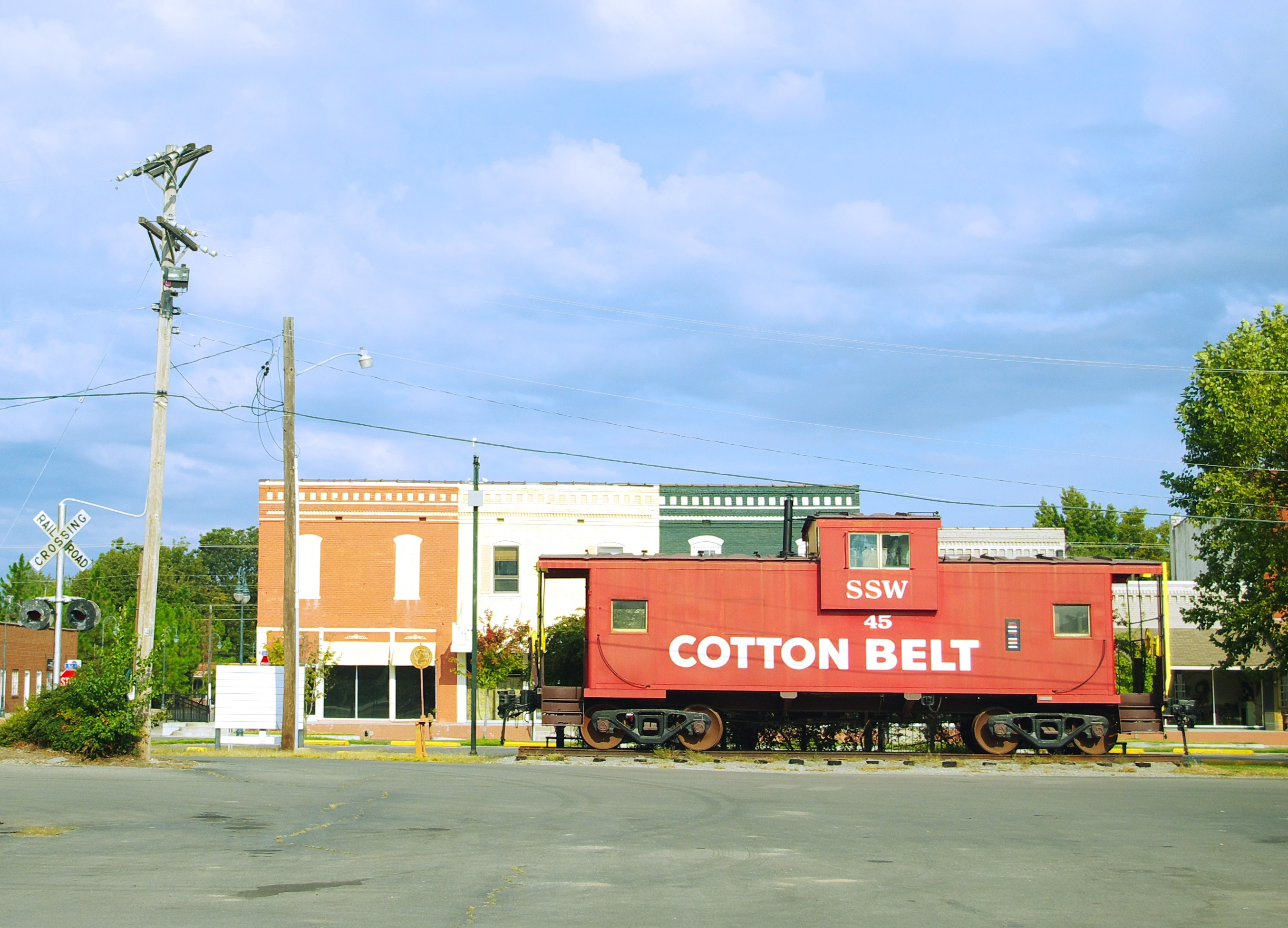 St. Louis Southwestern (Cotton Belt Railroad) caboose and buildings along Main Street in East Prairie, Missouri, United States.